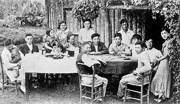 Nipo-brazilian family in the Bastos city colony, São Paulo State. Brazil